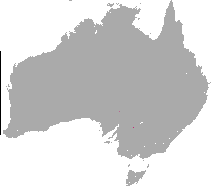 Boodie (Bettongia lesueur) range (brown — native, pink — reintroduced)